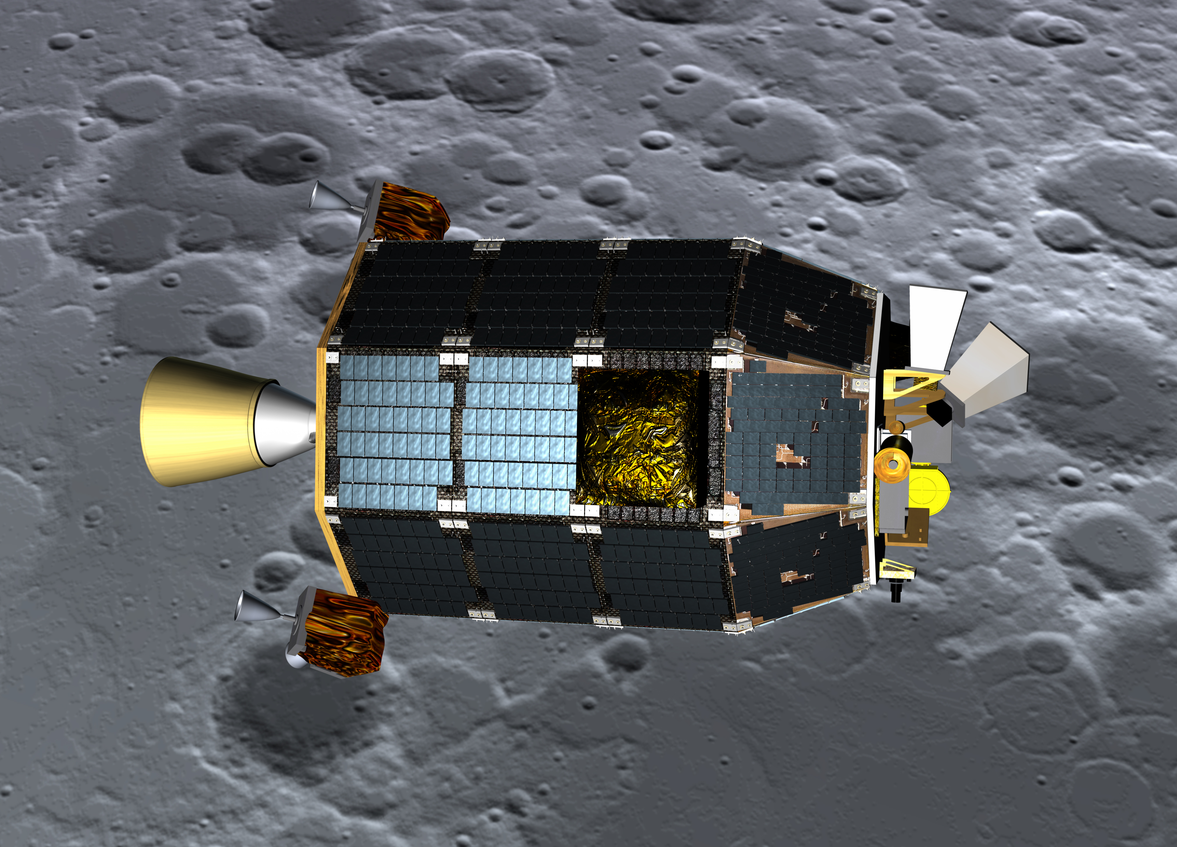 An artist's concept of NASA's Lunar Atmosphere and Dust Environment Explorer (LADEE) spacecraft seen orbiting near the surface of the moon.